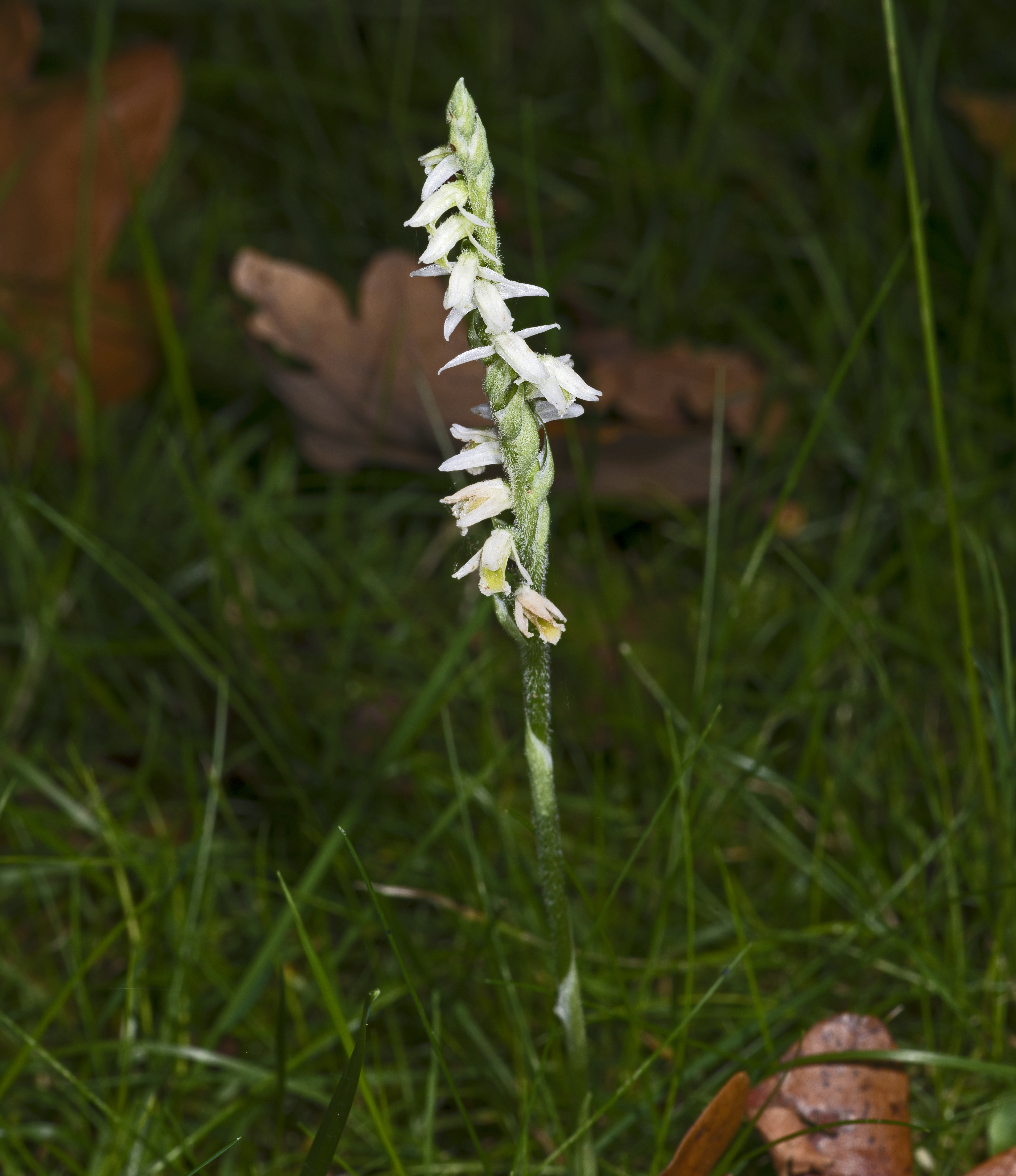 Autumn Lady's-tresses